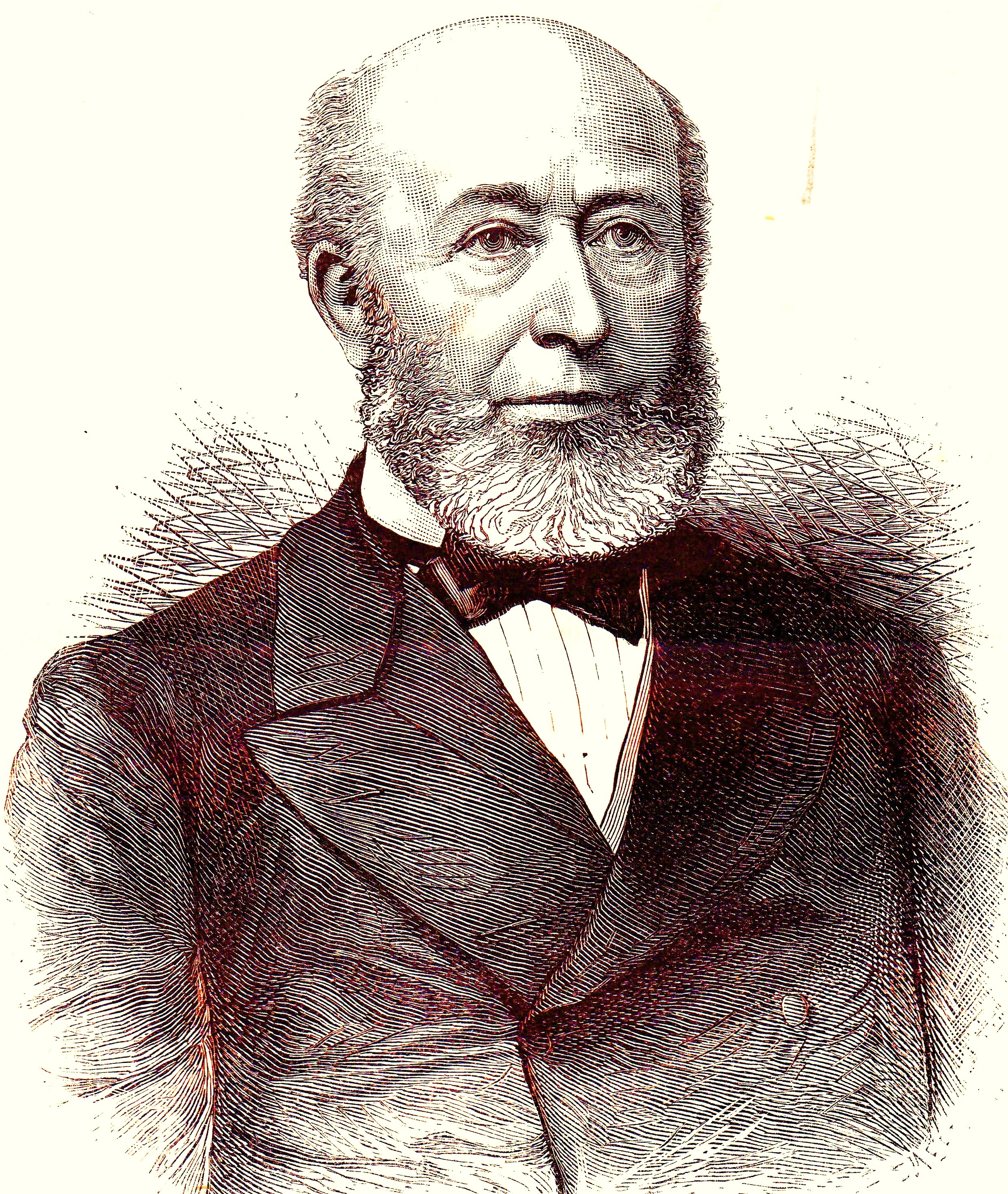 F. s'Jacob